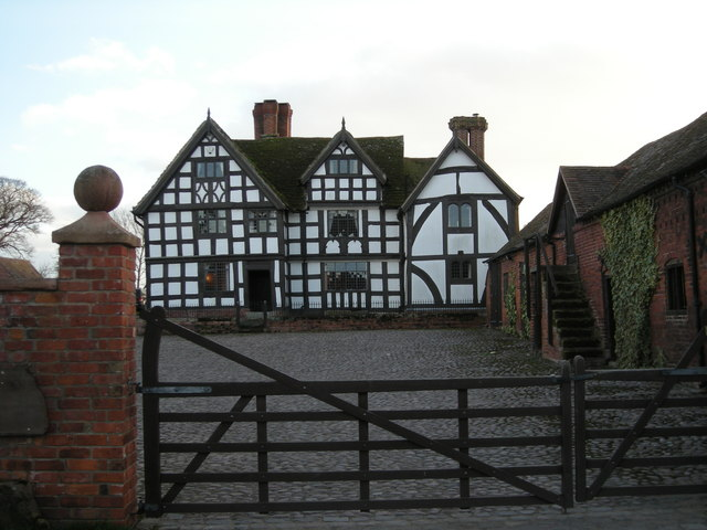 The Manor House at Berrington.